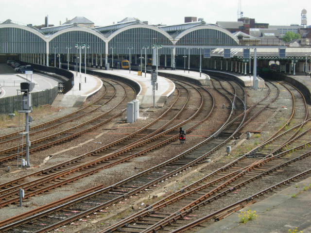 Paragon Station throat Hull's railways terminate at this imposing station, only part of which is still in railway use. Nevertheless, the tracks make an impressive sight as they sweep into the platforms.